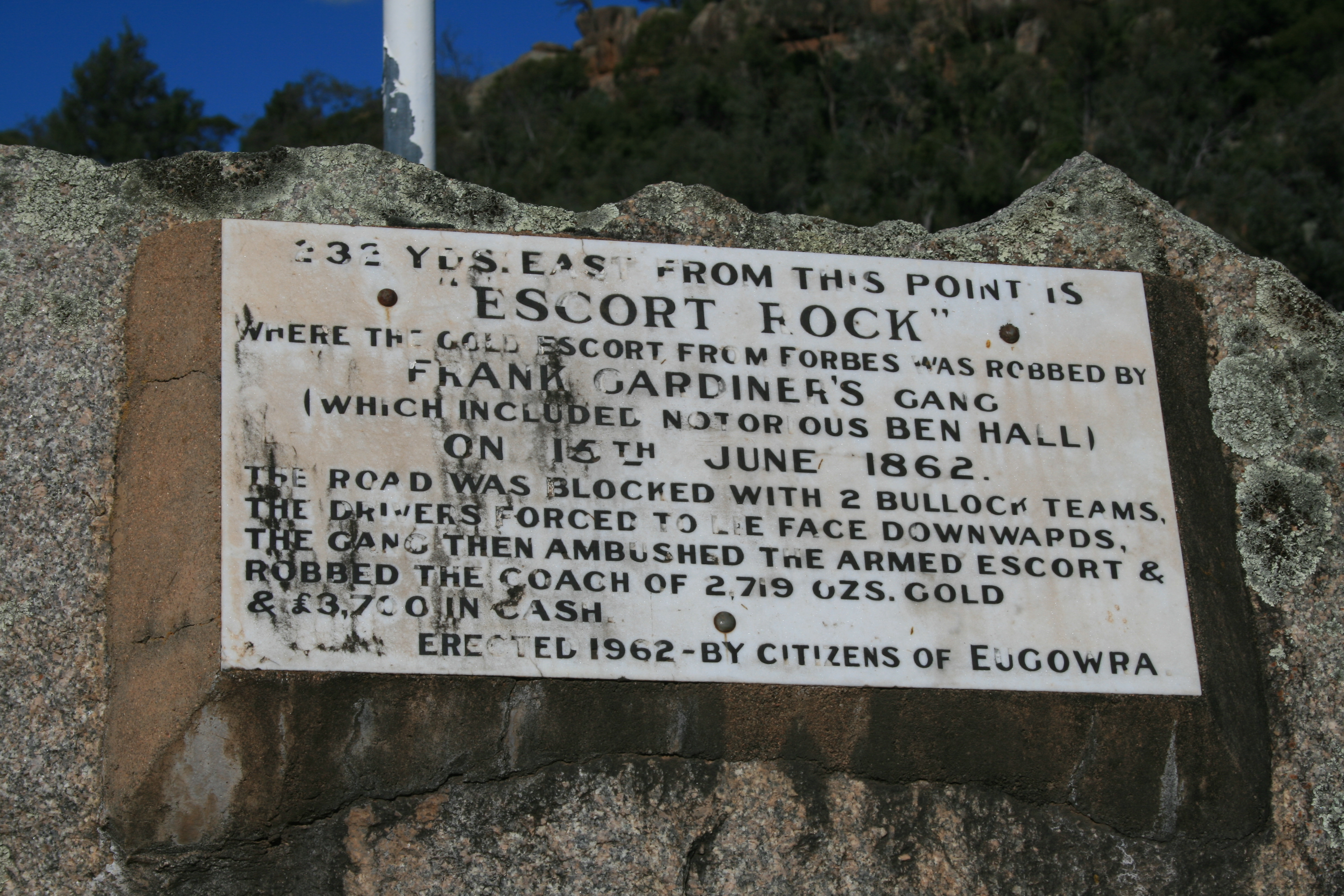 Escort Rock near Eugowra, New South Wales in Australia - The place where the gold escort was held up on 15 June 1862. Frank Gardiner and his gang stole gold-dust and notes to the value of about £14000. Other bushrangers involved were Ben Hall and John Gilbert. It was the only big gold-escort robbery ever carried out in New South Wales. Some of the money was recovered and several of the robbers were arrested.